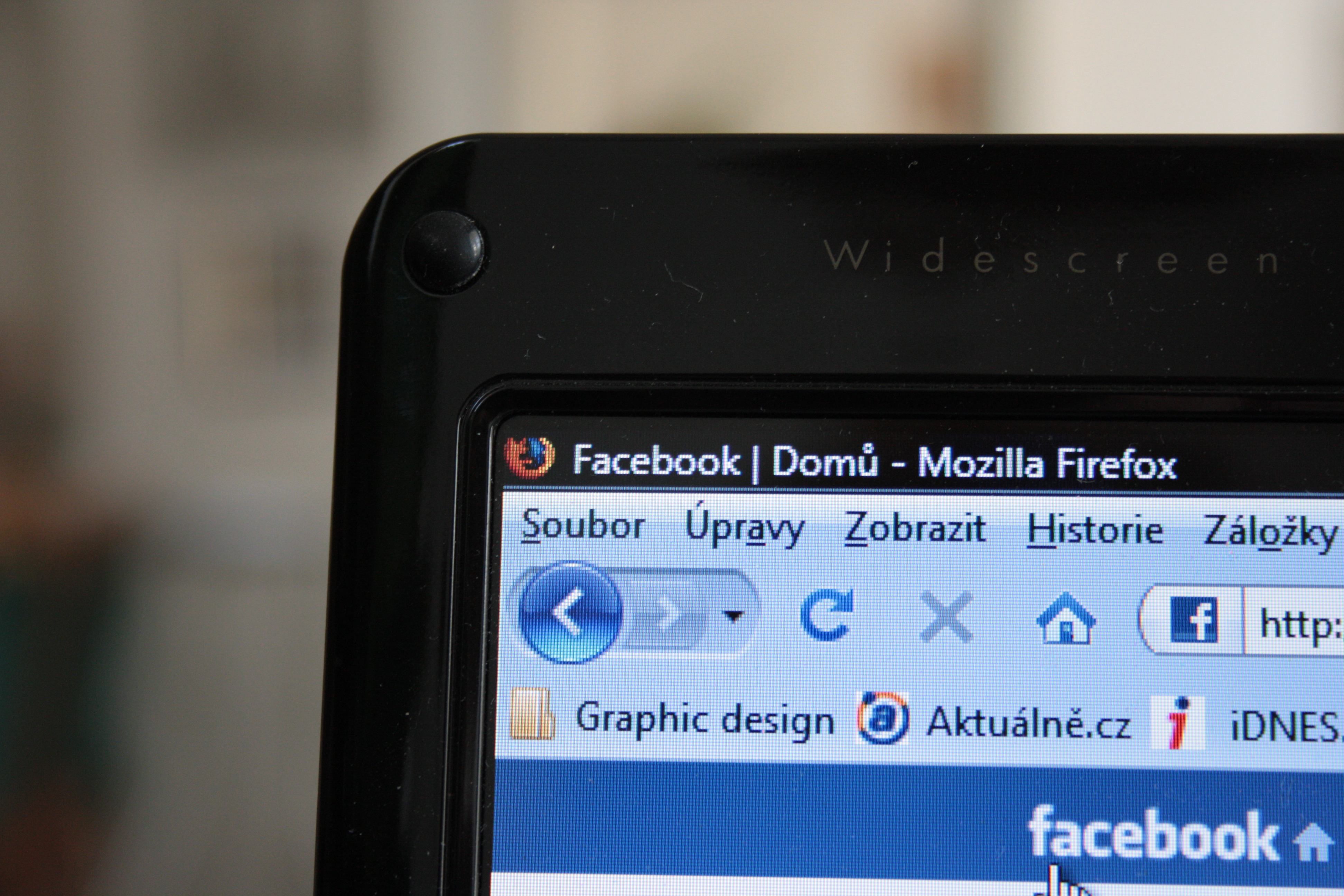 Picture of notebook screen with Facebook and Firefox.